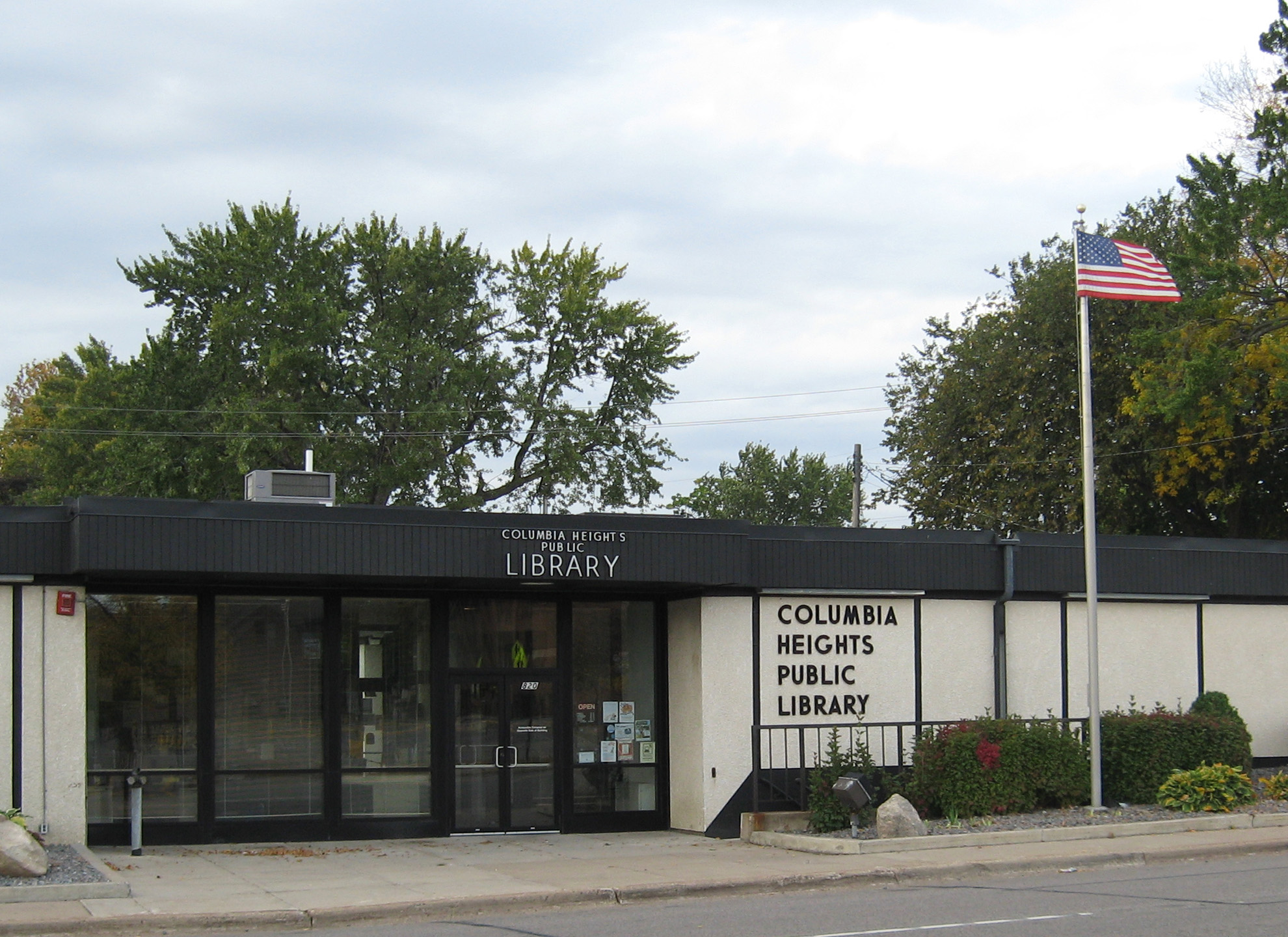 820 40th Ave NE, Columbia Heights, MN. Obtained from the public archives of the Columbia Heights Historical Society.